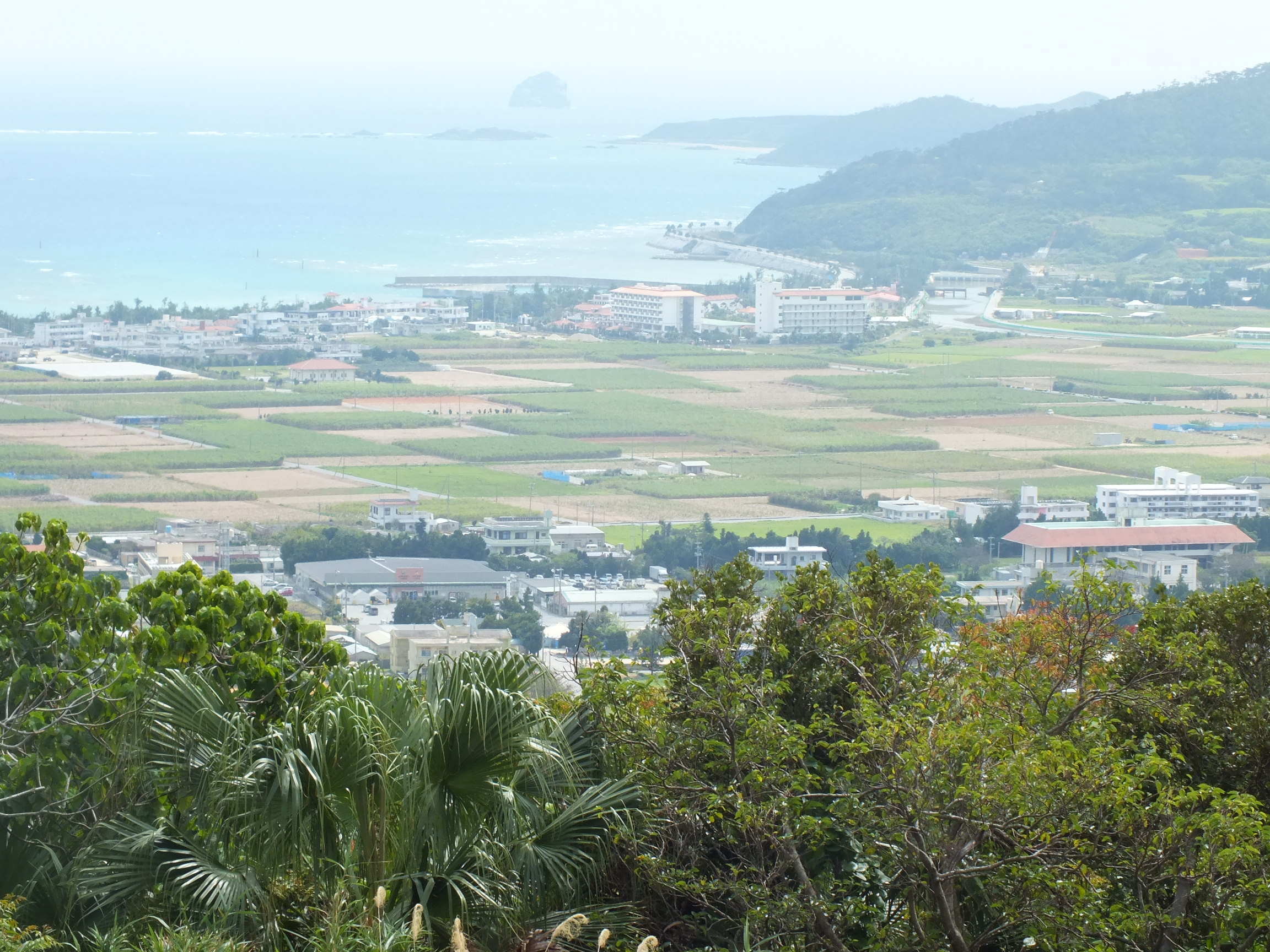 Īfu Beach seen from Tounnaha-jō, Kumejima, Okinawa Prefecture, Japan.